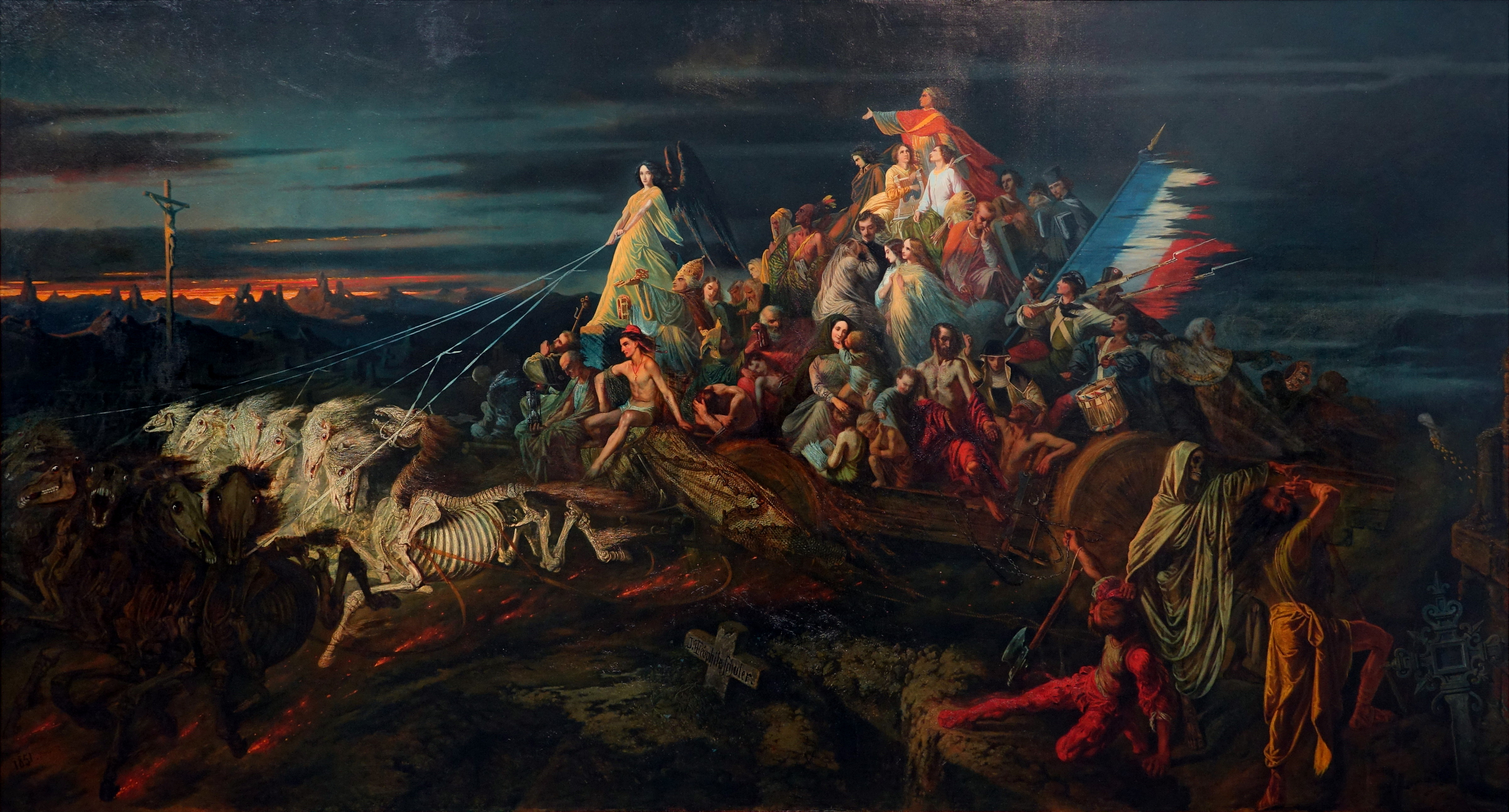 The Chariot of Death (1848) by Théophile Schuler at the Unterlinden museum in Colmar (Haut-Rhin, France).